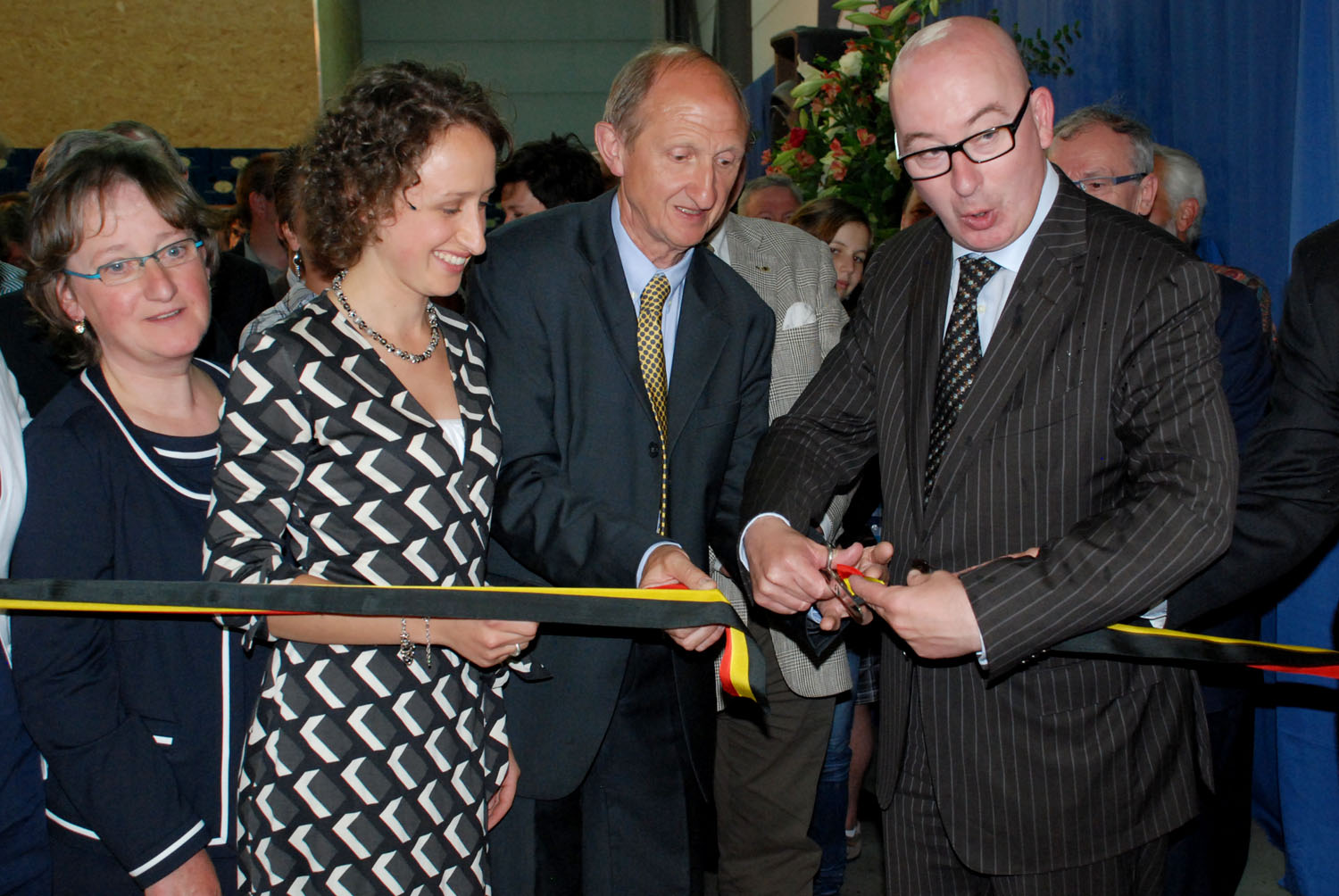 Brewery Dilewyns, Belgium